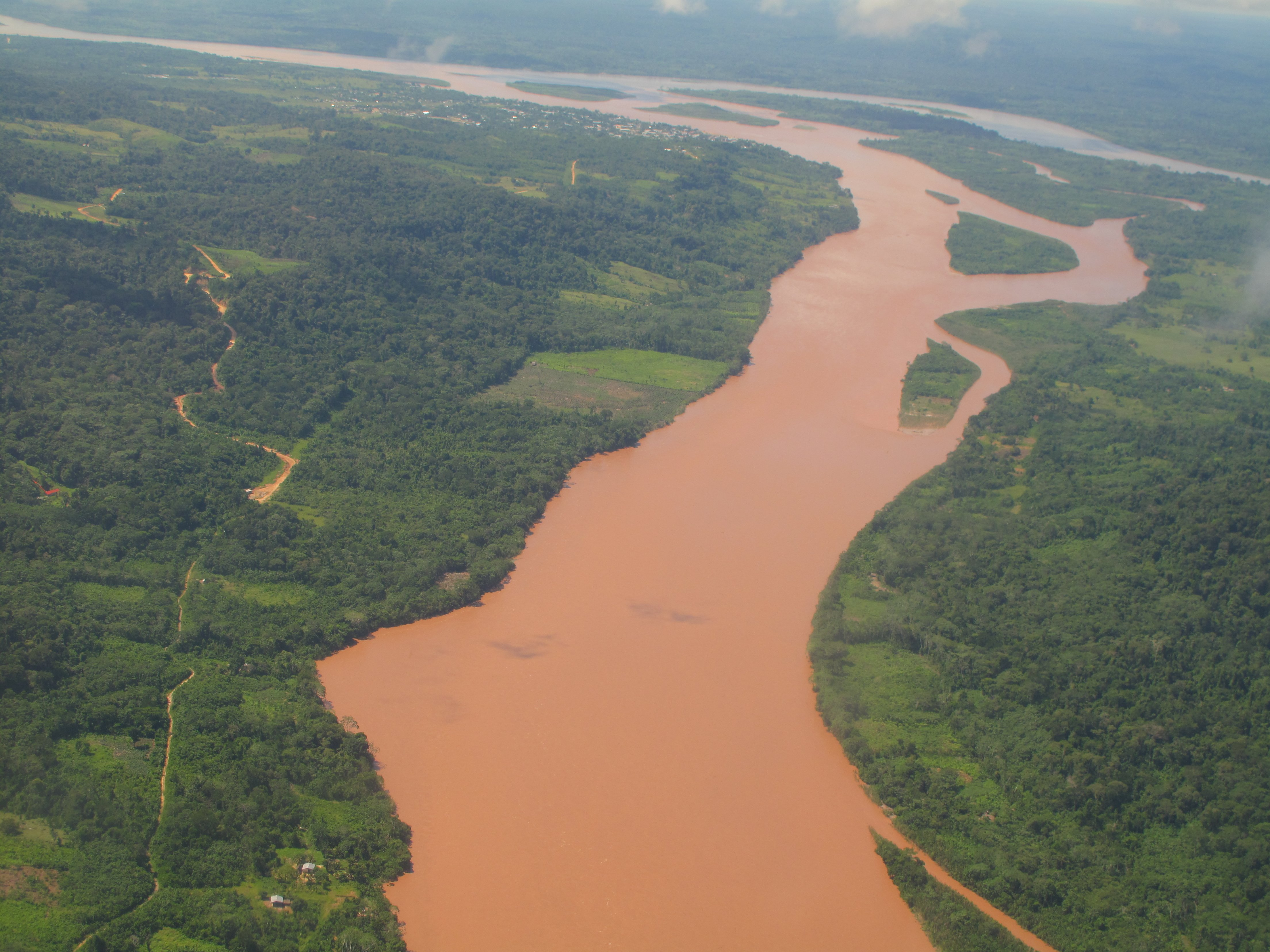 Aerial view of the confluence of the Río Tambo (from bottom to top) and the Río Urubamba (in the background, from right to left) forming the Río Ucayali (left). The city at the confluence is Atalaya in the Peruvian Region of Ucayali.